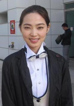 Cha Yuram, 10-22-2013